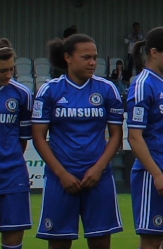 Drew Spence before the Continental Cup game